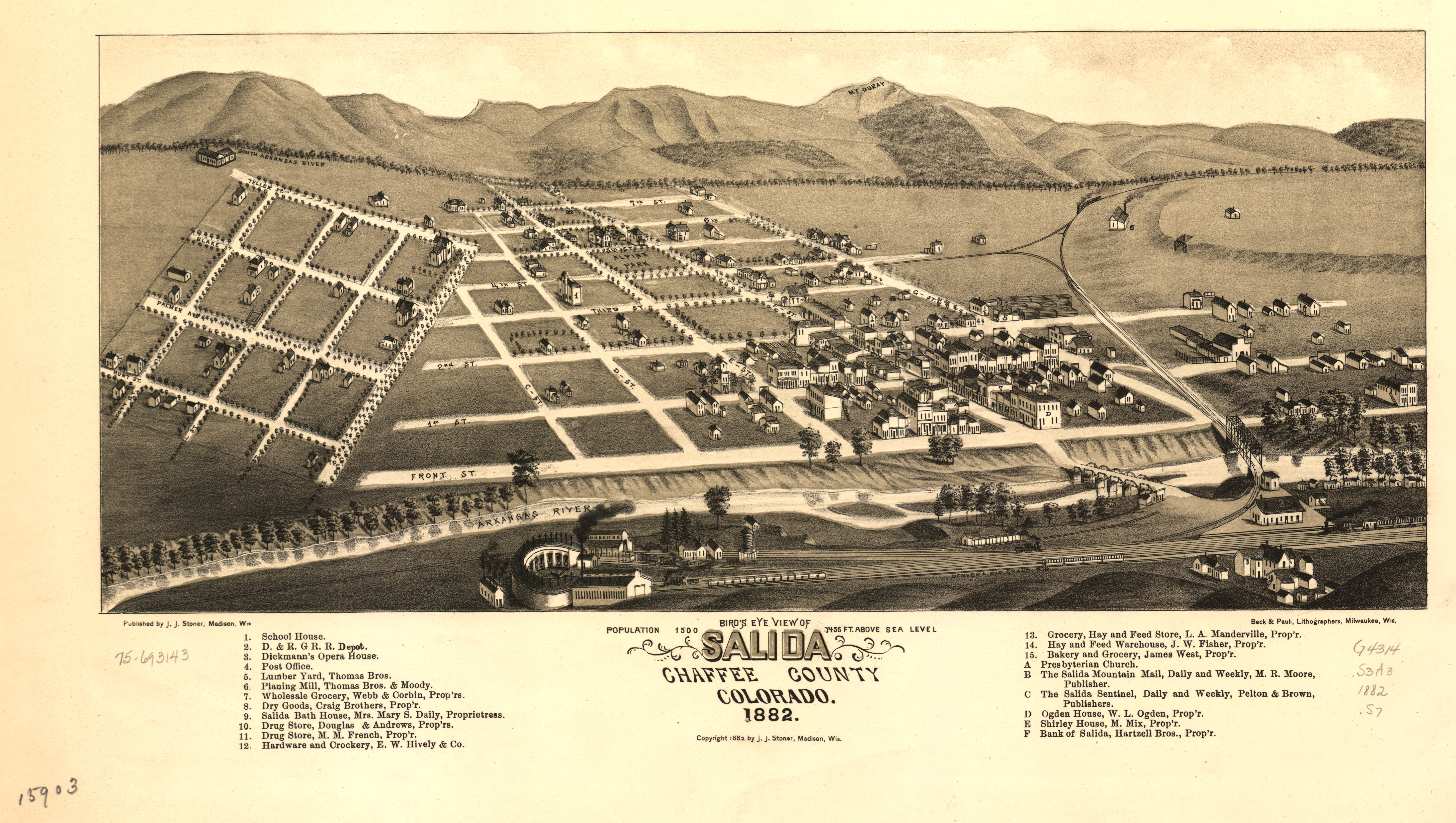 A bird's eye view of Salida, Colorado, USA in 1882.